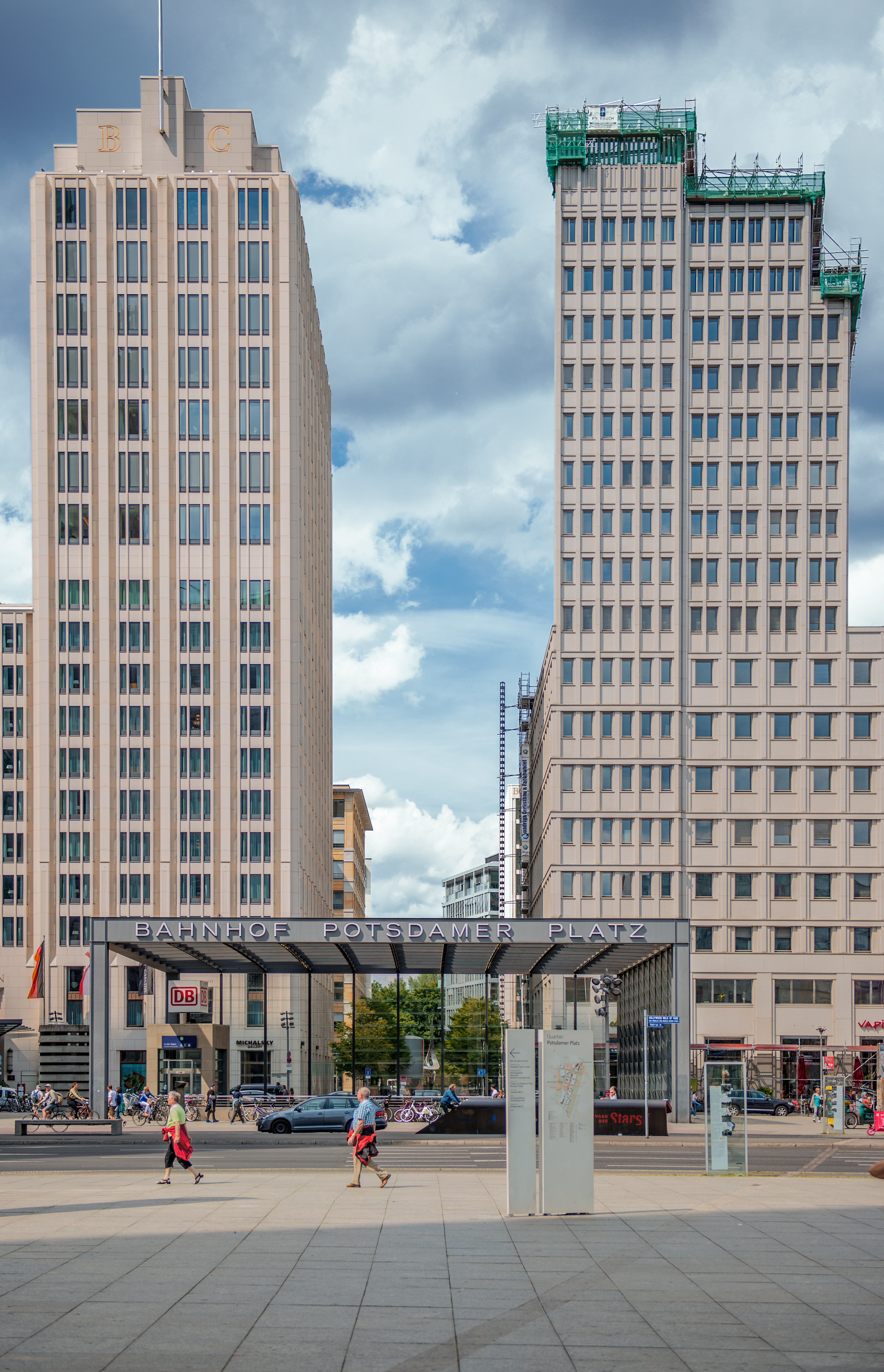 Berlin Potsdamer Platz Station - The North Entrance